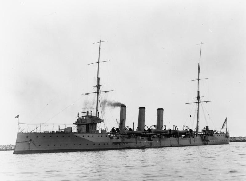 Photograph of British Topaze class cruiser HMS Diamond.